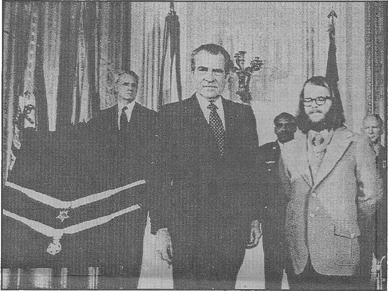 Kenny Kays Recieves Congressional Medal from Richard Nixon